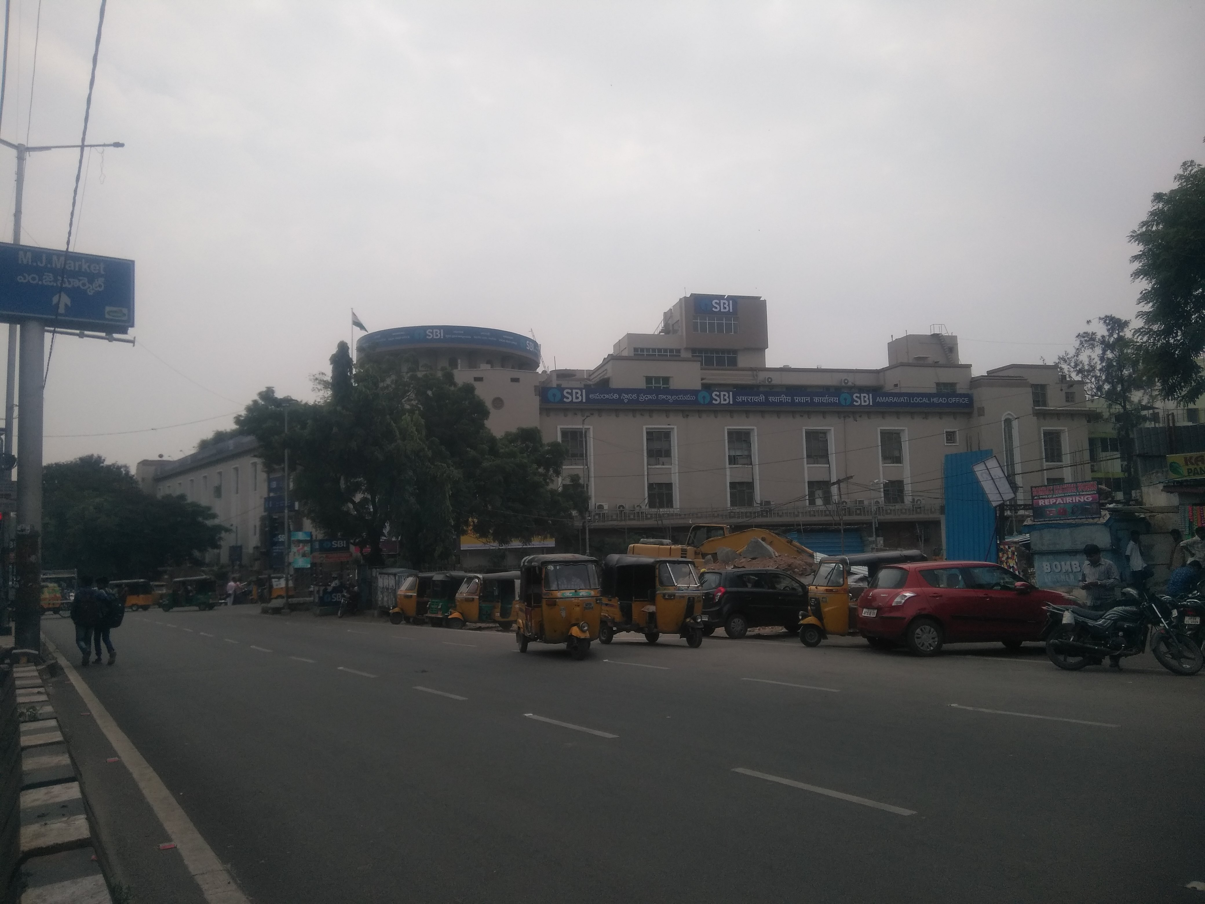 SBI main building at Gunfoundry